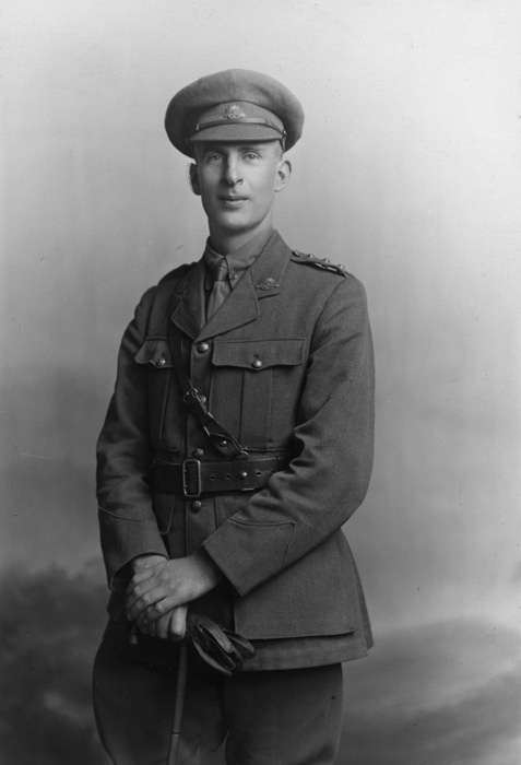 Disher, Captain Harold Clive - Service Number: VX294, Date of Birth: 15/10/1891